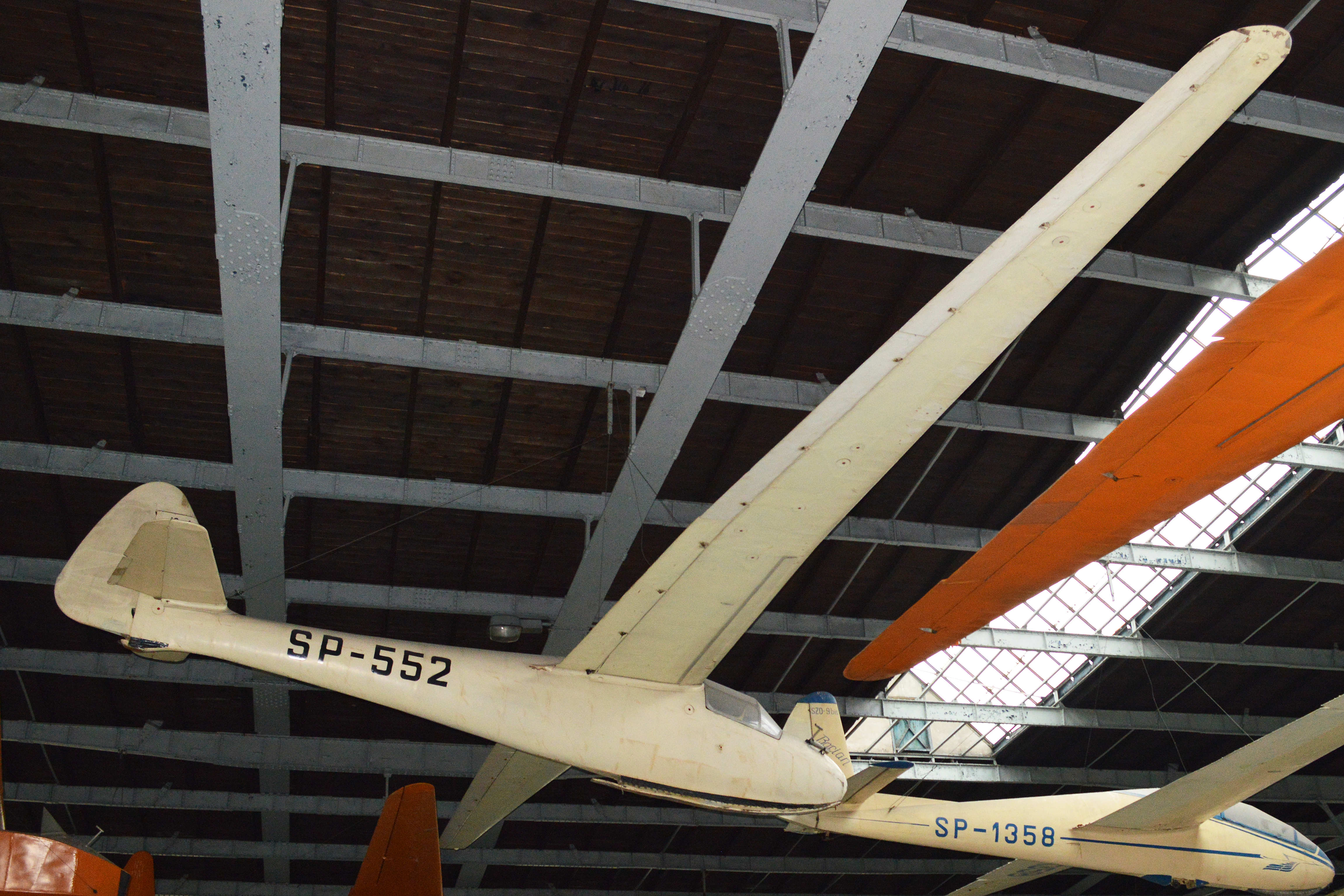 c/n 011. On display suspended in the main display hangar at the Muzeum Lotnictwa Polskiego Krakow, Poland. 23-08-2013.